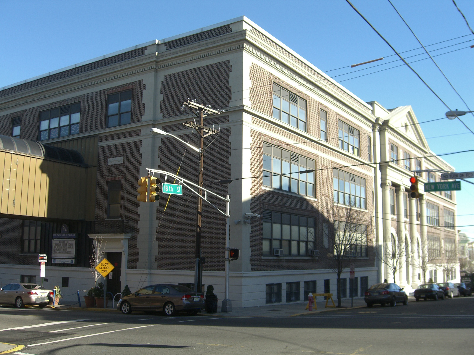 Emerson Middle School in Union City, New Jersey. Emerson High School (now Emerson Middle School) in Union City, New Jersey. Photo by Luigi Novi. You are free to use this photo for any purpose, provided that I am credited wherever it is used. For further information on the Licensing requirements (See Licensing information below), contact me at here.